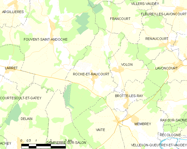 Map of French municipality